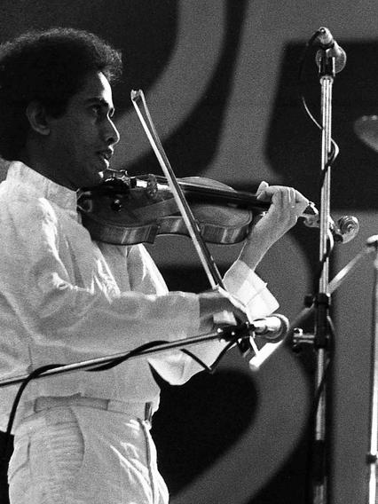 L Shankar in One Truth Band, Jazz Bilzen 1978